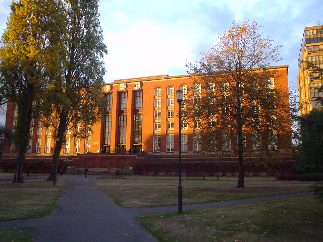 I took this picture durin the autumn 2003. I was an MSc student during the period 2003-2004. Anyone who want to use this picture, it is free to do it. Summary I took this picture durin the autumn 2003. I was an MSc student during the period 2003-2004. Anyone who want to use this picture, it is free to do it.